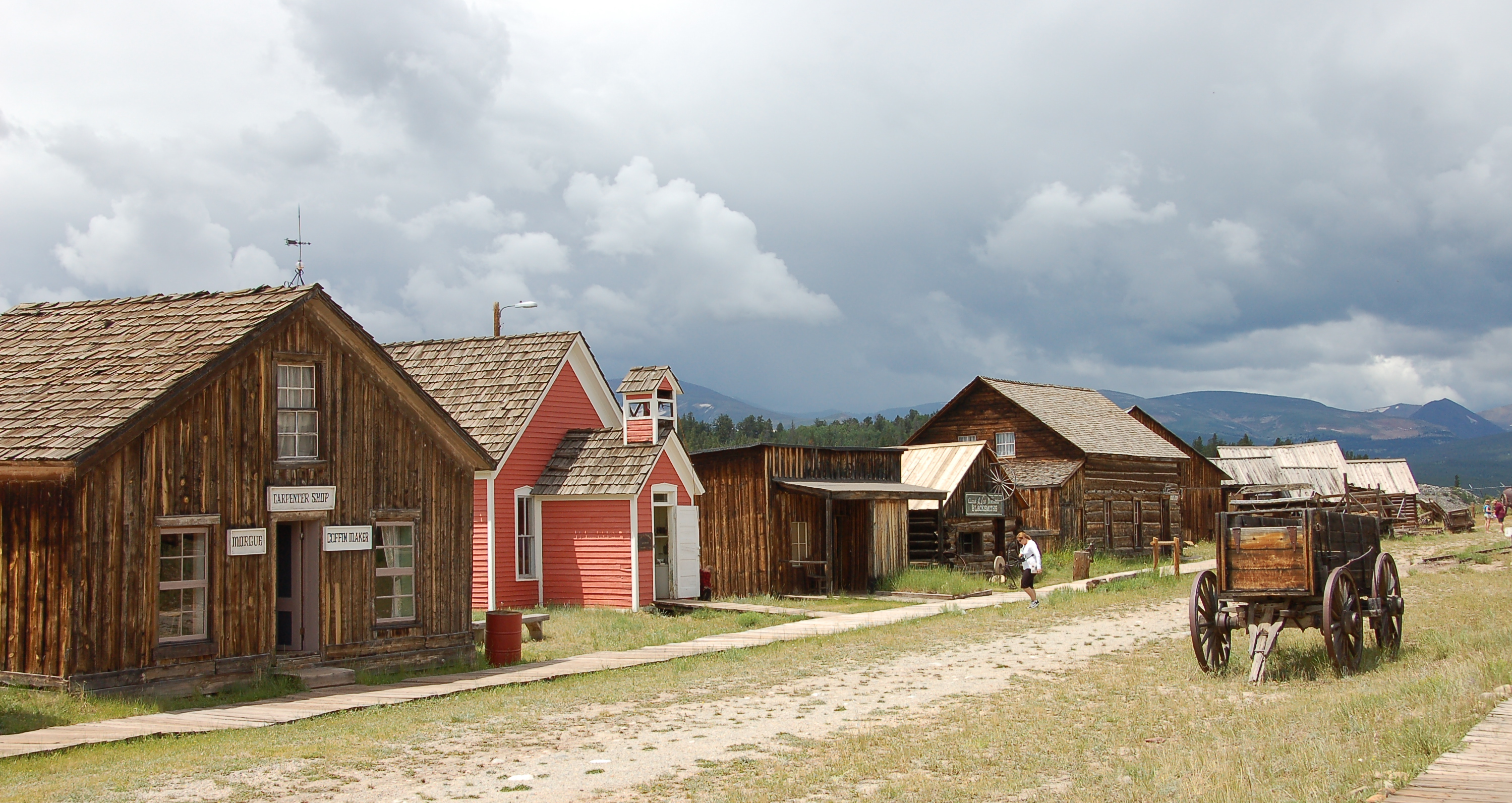 South Park City museum Morgue and Carpenter Shop and School (red)